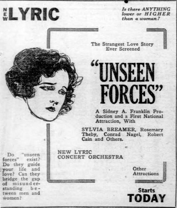 Newspaper advertisement for the American drama film Unseen Forces (1920) with Sylvia Breamer, on page 7 of the February 26, 1921 Duluth Herald.